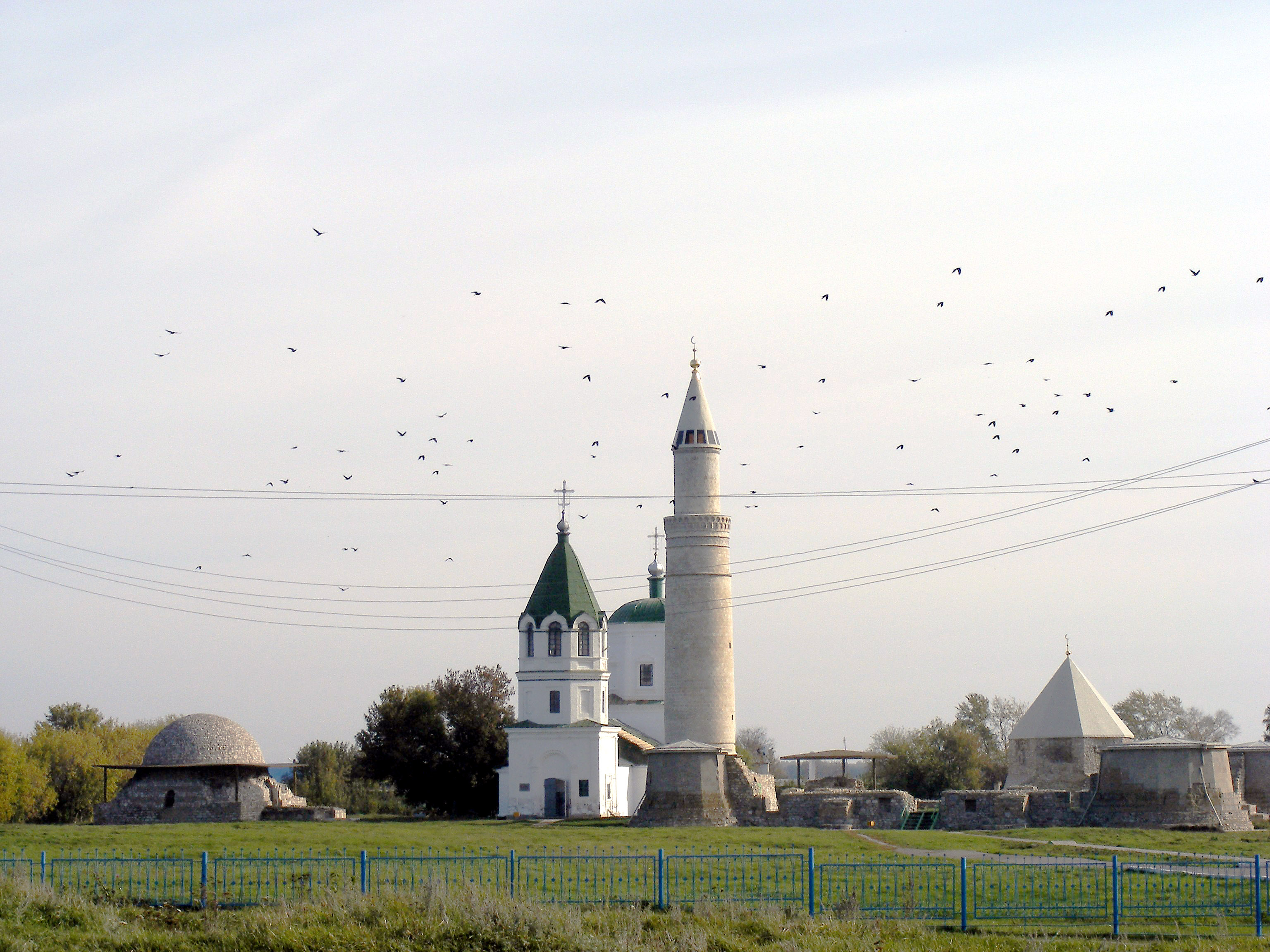 View of the remains of the Bolgar mosque, restored minaret, Northern and Eastern mausoleums and a church in Bolgar, Tatarstan, Russia